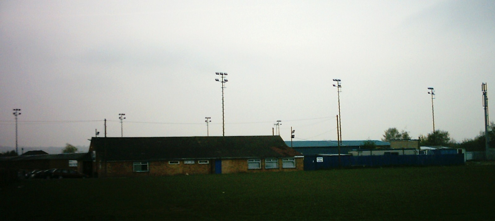 Throstle Nest football ground in Farsley, Leeds, West Yorkshire, UK. The football club Farsley Celtic play here. Taken on the 14th April 2009.